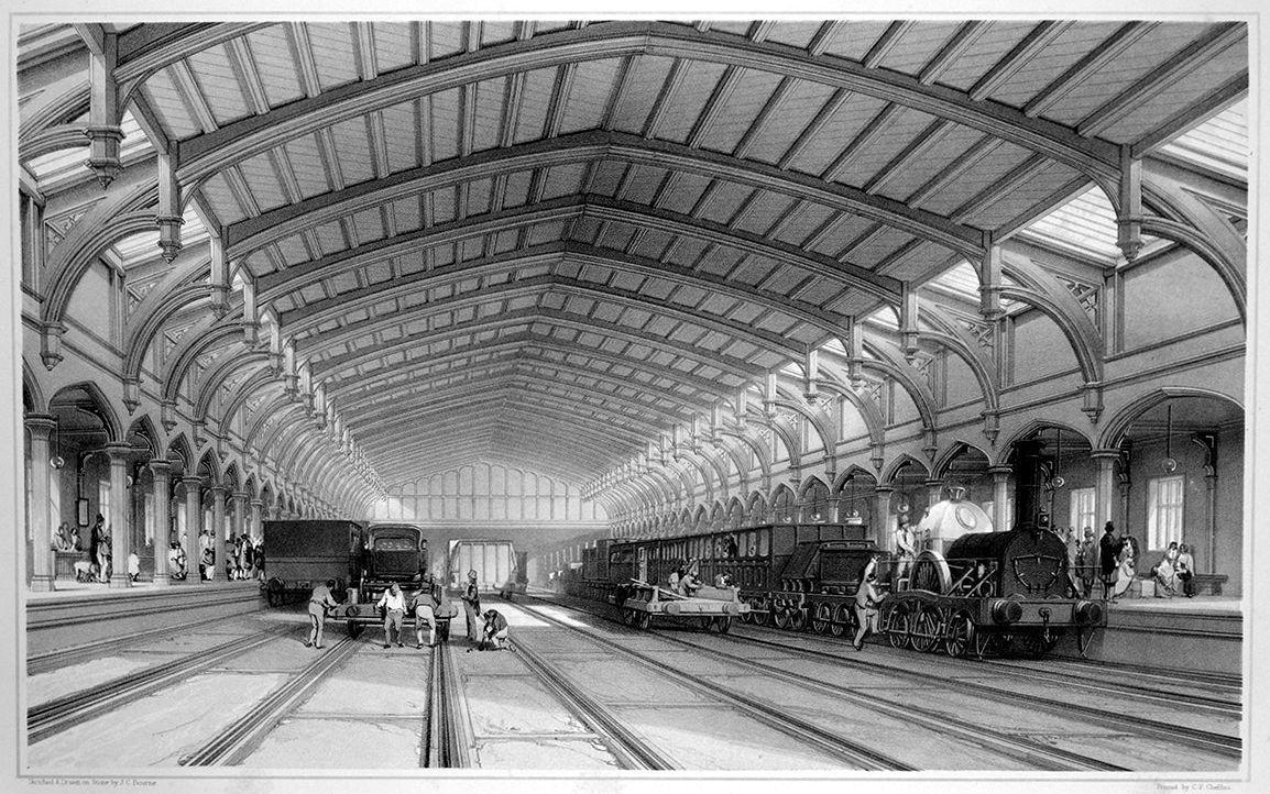 Engraving print of the inside of Isambard Kingdom Brunel's train-shed at Bristol Temple Meads railway station in the UK. Image shows a Great Western Railway 2-2-2 locomotive waiting by the platform.